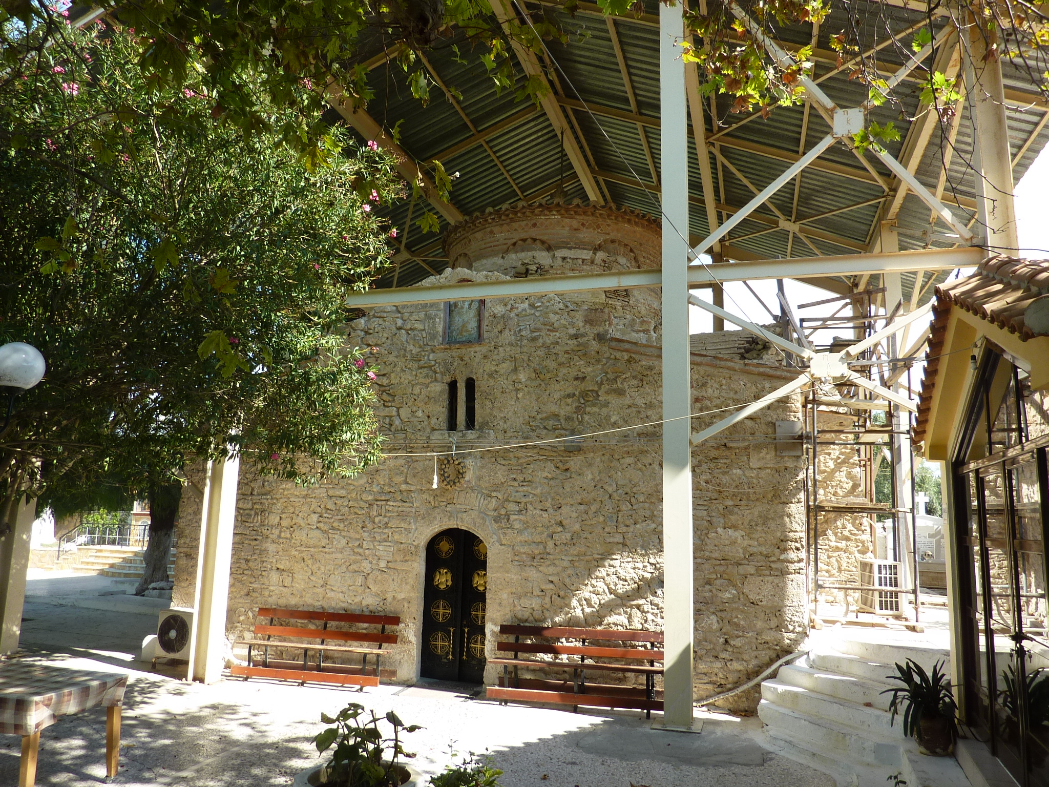 Frangavilla Monastery (Amaliada)